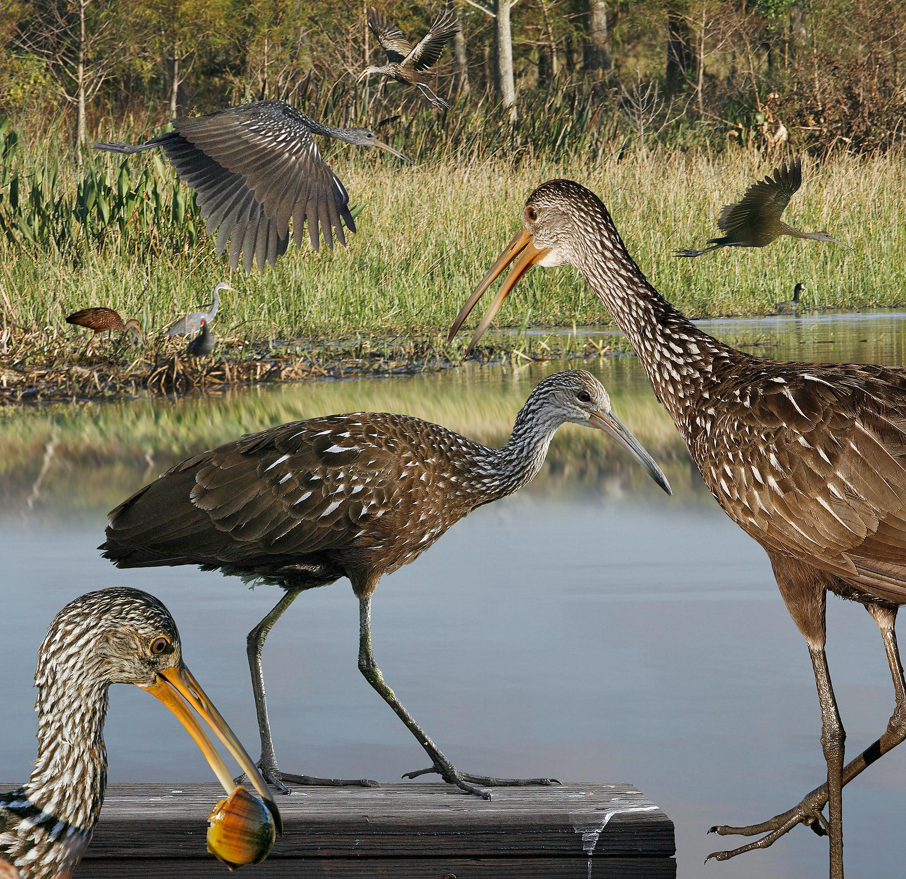 Limpkin From The Crossley ID Guide Eastern Birds